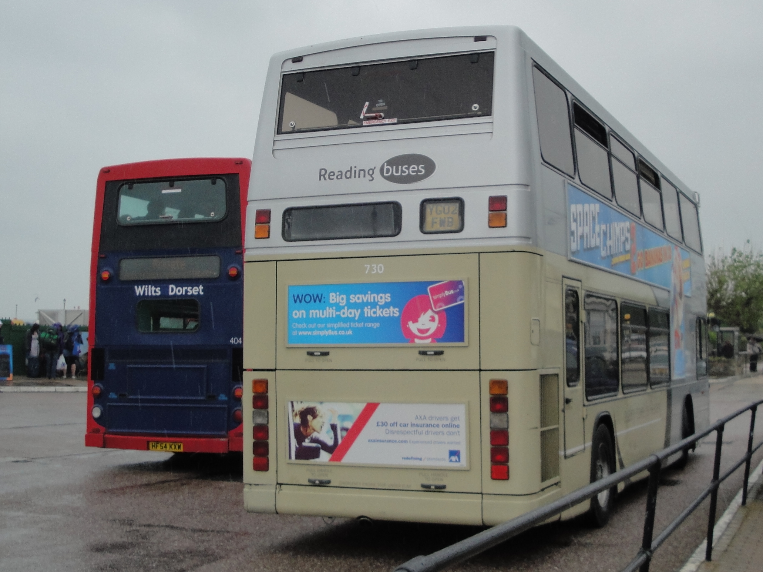 The rears of Wilts & Dorset 404 (HF54 KXW), a Volvo B7TL/East Lancs Myllennium Vyking and Reading Transport 730 (YG02 FWB), a DAF DB250/Optare Spectra in Ryde, Isle of Wight bus station operating a shuttle service between Ryde and the Isle of Wight Festival site. The buses involved from Reading Buses were their Spectras 724, 725, 728, 729 and 730, as well as a number of Reading Transport staff.